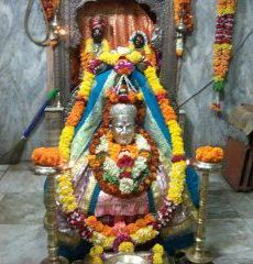 Shri NarasimhaSaraswati Samadhi Mandir (Alandi)